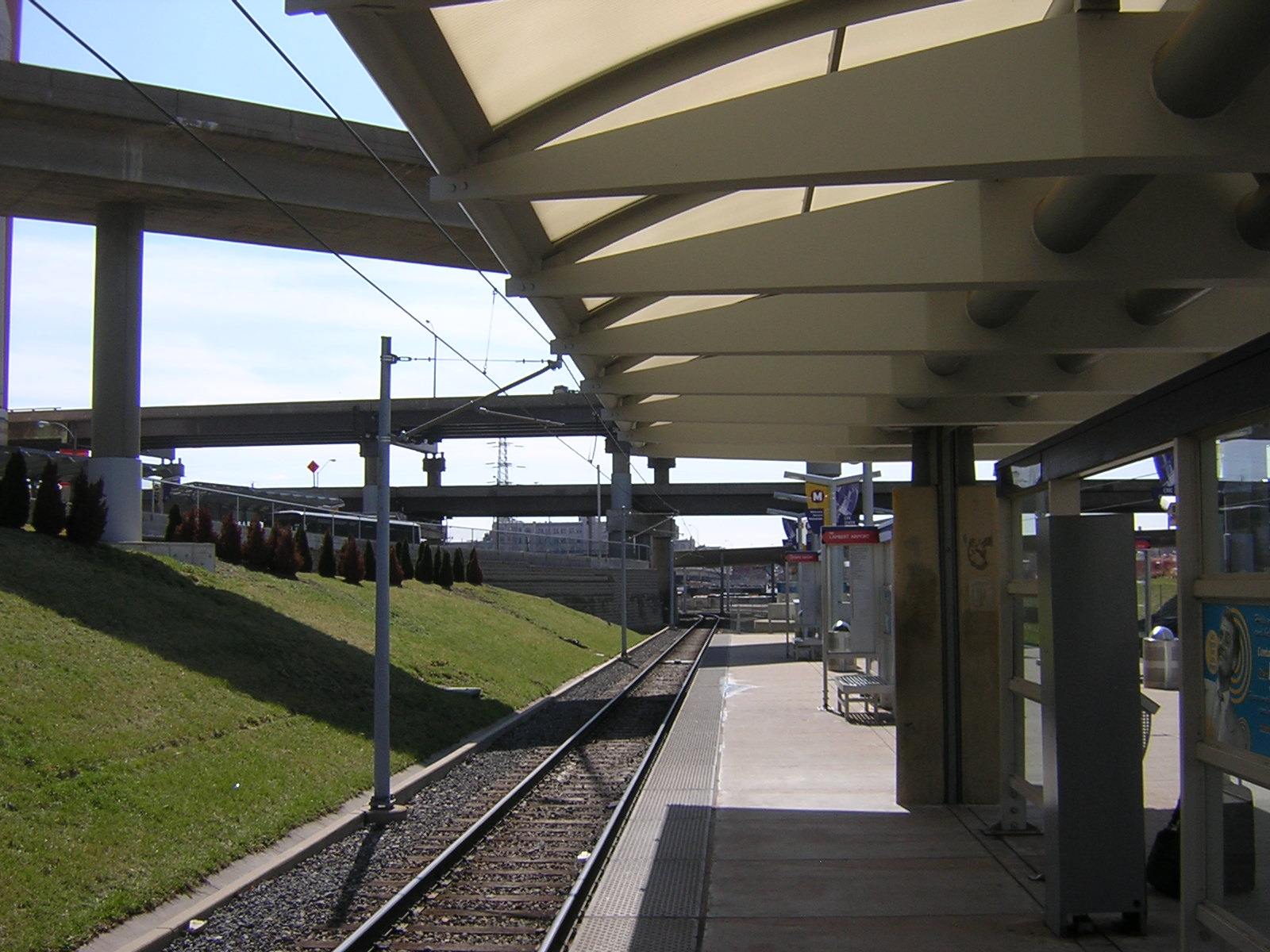 The St. Louis MetroLink Civic Center station at 1413 Spruce Street, St. Louis, Missouri 63103. This station serves the red and blue lines. The station is located near the Scottrade Center, home of the St. Louis Blues, Sheraton City Center Hotel, Soldiers Memorial, and The Saint Louis Public Library Central Library. It is one of six metrolink stations in the Downtown St. Louis Ride Free Zone at lunch time on weekdays. This stop is also the site of the St. Louis Gateway Transportation Center, including direct access between Metrolink, MetroBus, Amtrak, and Greyhound; as of 2006, the multi-modal center is under construction, and proposed to be completed in late 2007. [1] This image taken from the platform.